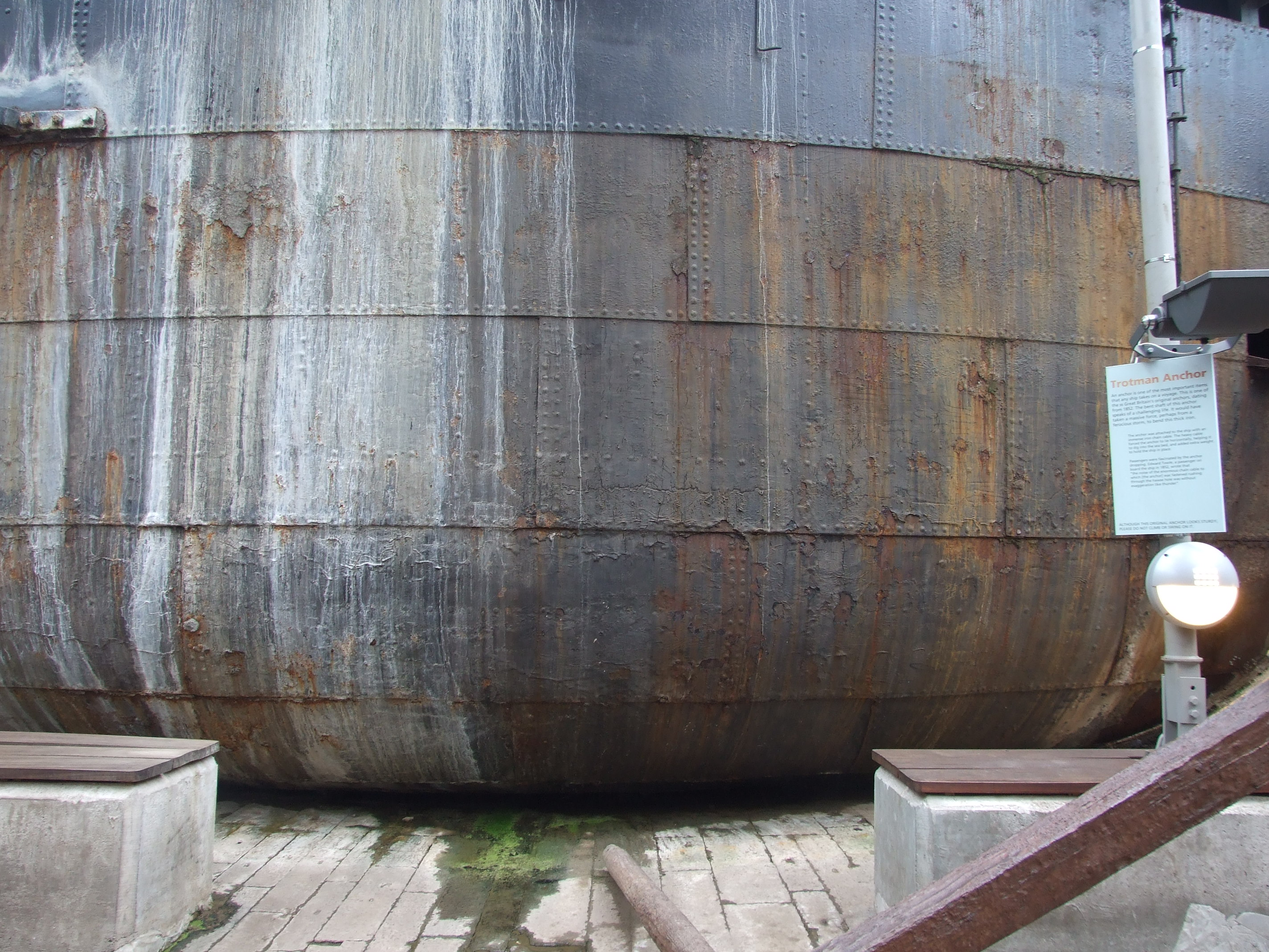 Imagine the water piling up behind this...